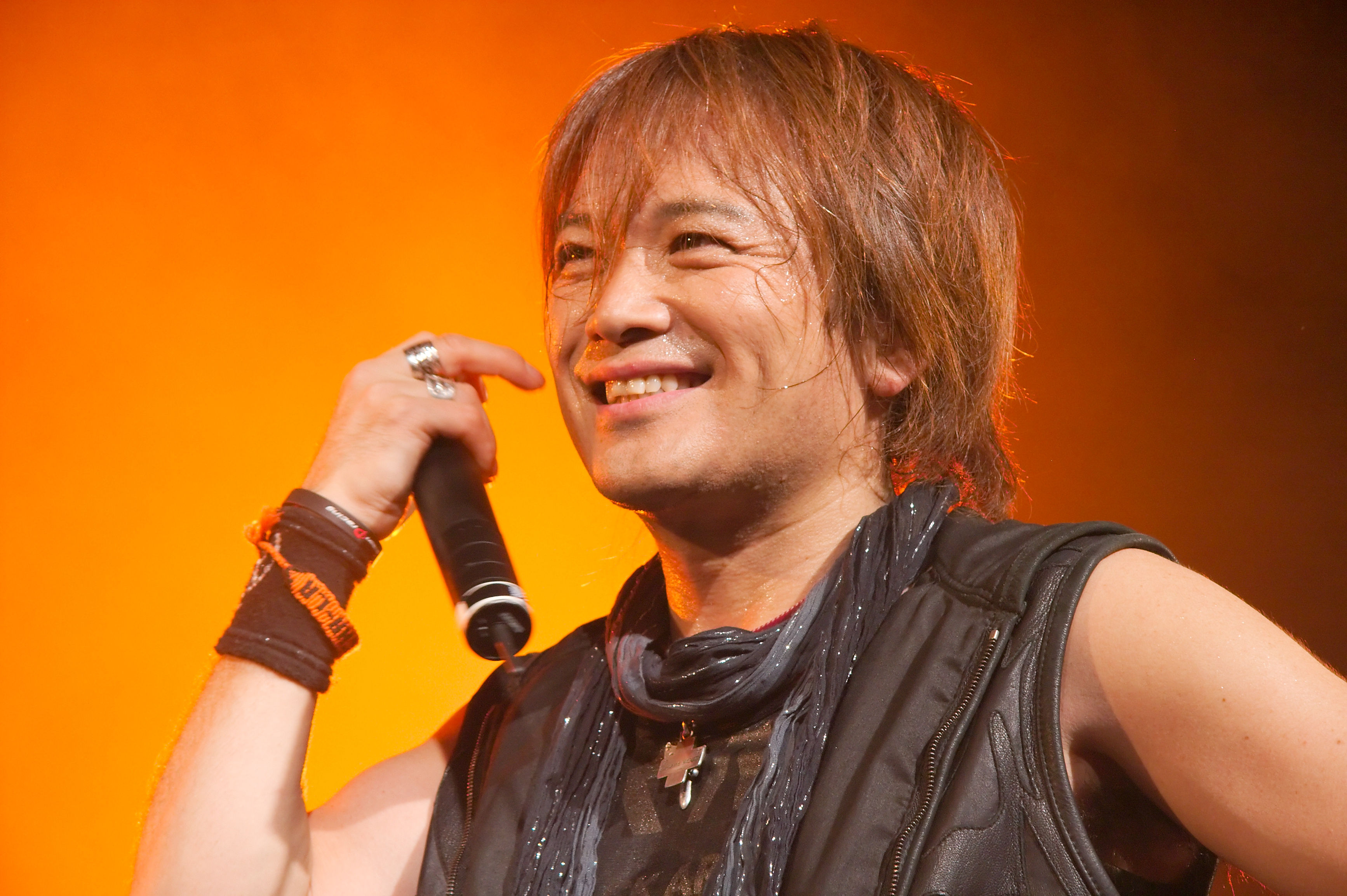 JAM Project live at Chibi Japan Expo 2008 (Paris, France).